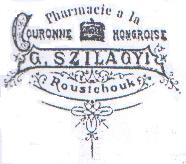 Logo of Silagi pharmacy